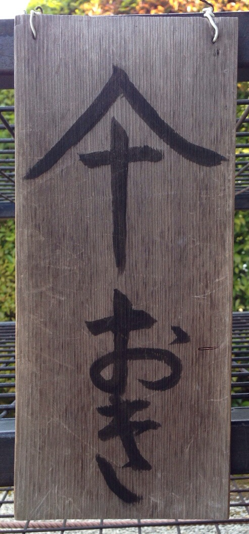 Sign show ryakuji (colloquial simplification) of 傘 (kasa, umbrella), as 仐 (人 + 十), with inner 人 omitted, in phrase 「傘おき」 (kasa-oki, “umbrella stand”) at a temple in Japan.